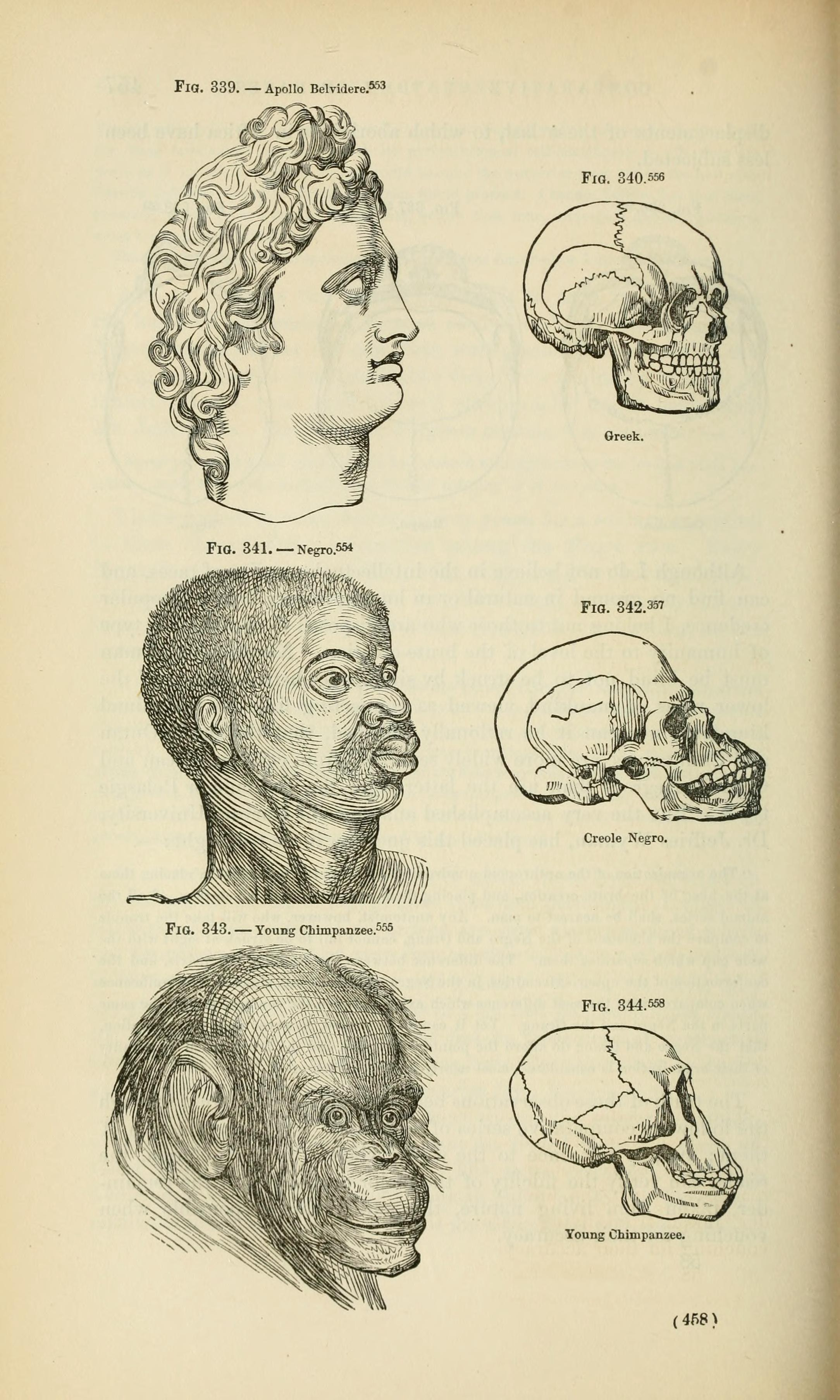 Scan from The Mismeasure of Man, but originally from a mid-19th century work. A scientific demonstration from 1868 that the Negro is as distinct from the Caucasian as the Chimpanzee. Josiah Nott was a polygenist who believed that the "races" of man had always been separate. Shown heads and their supposed skulls. Text: "Apollo Belvedere, Greek, Negro, Creole negro, Young Chimpansee, Young Chimpansee"